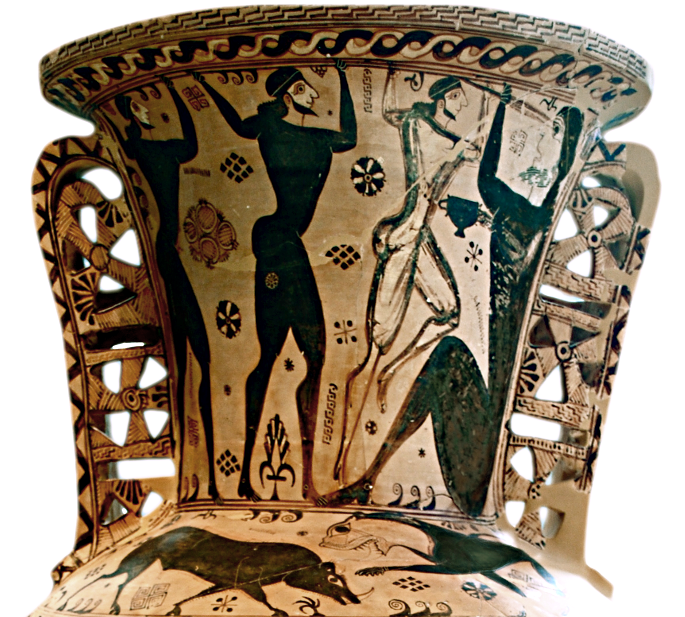 Detail of Polyphemus Amphora (Eleusis Amphora), name vase of the Polyphemus Painter, proto-Attic neck amphora, ca. 650 BC, Archaeological Museum of Eleusis. Photo by Panegyrics of Granovetter (Sarah Murray). -- View original source for licensing information. This version of the image has been cropped and the background has been changed to solid white.